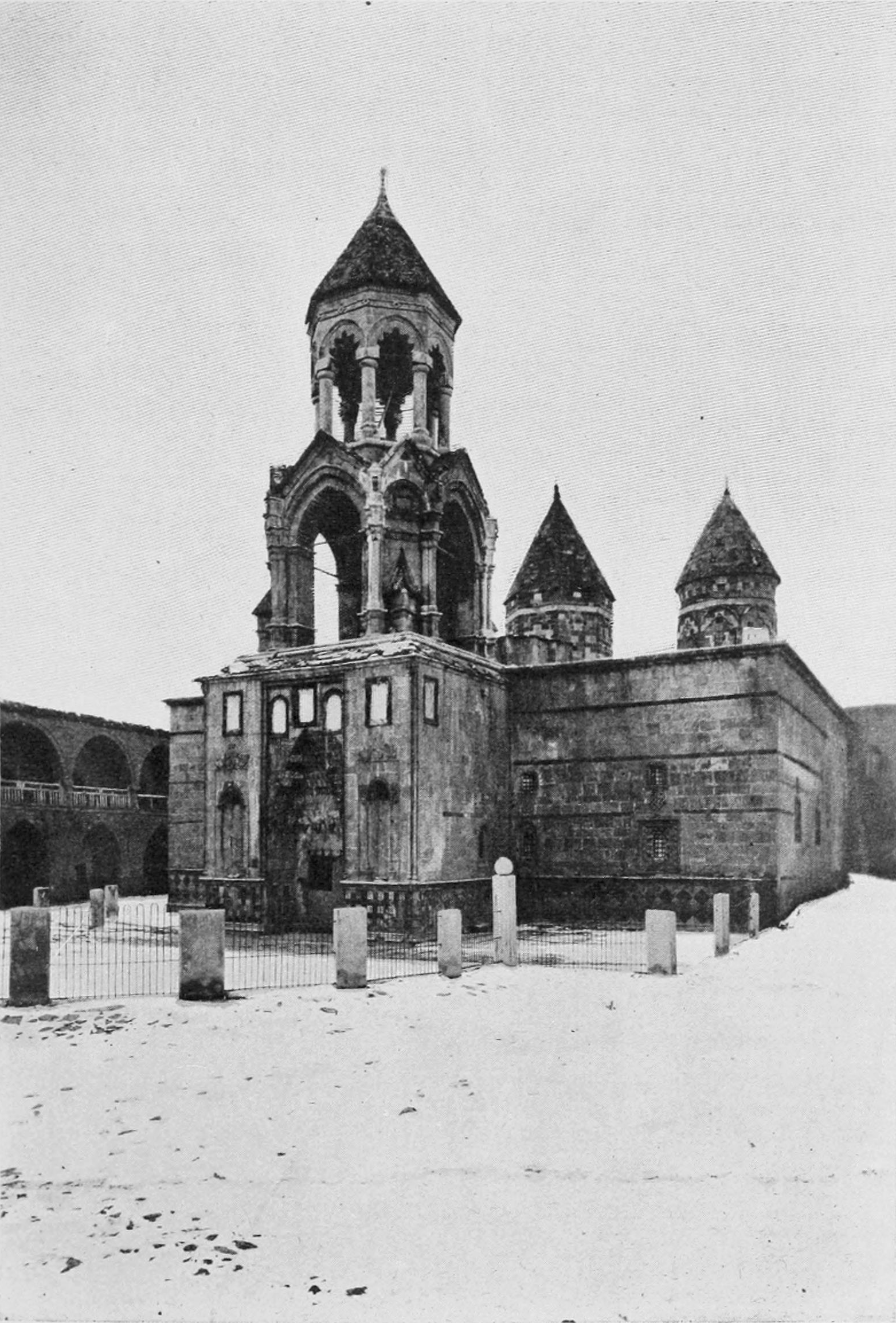 The 4th century Armenian monastery of Surb Karapet in the Taron Province of historic Armenia (at the time of the photo in the Ottoman Empire, present day Turkey).